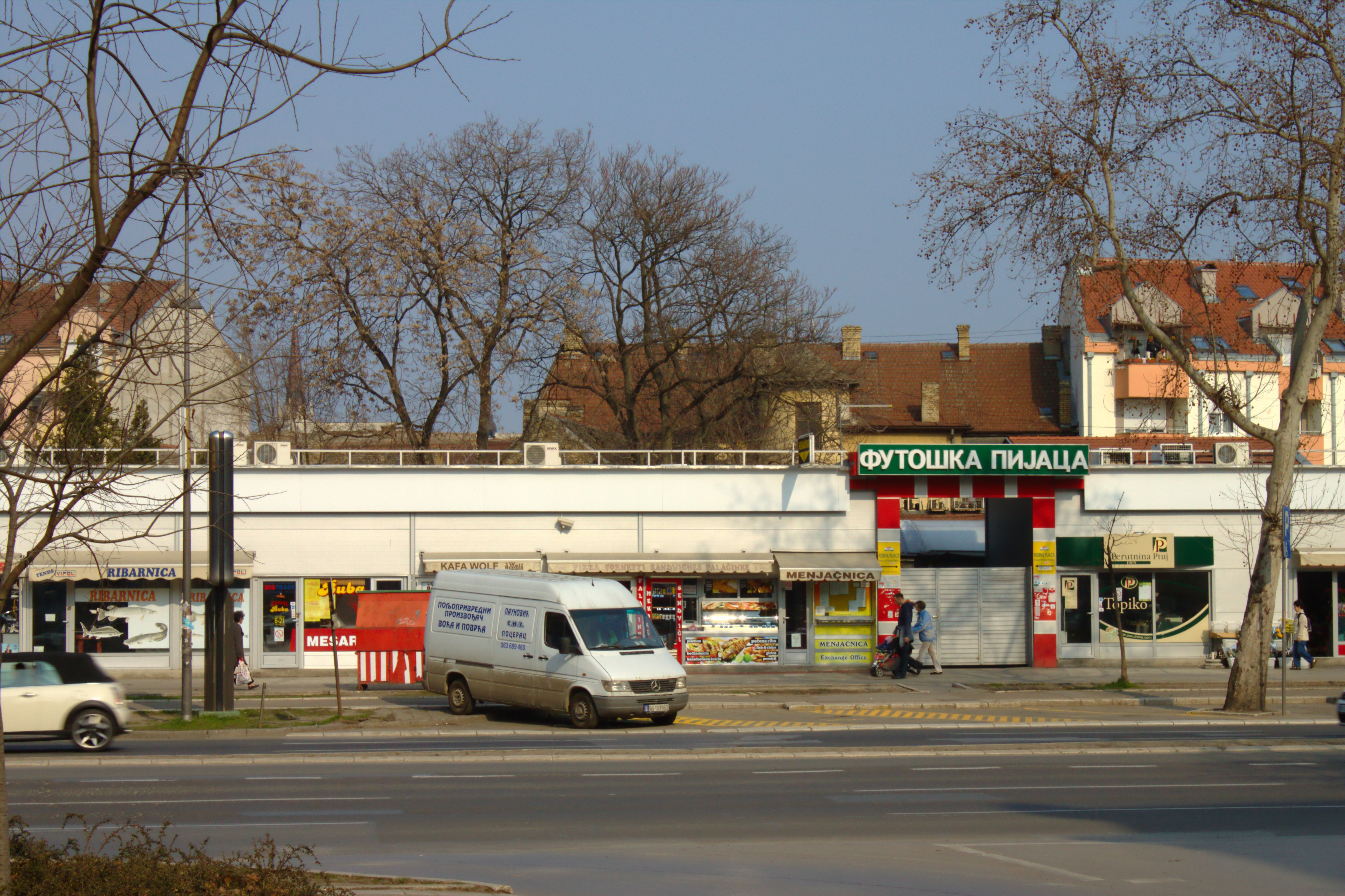 Futog marketsquare (Futoška Pijaca) in Novi Sad, Serbia. The area is seen from across the Liberation boulevard (Bulevar Oslobođenija